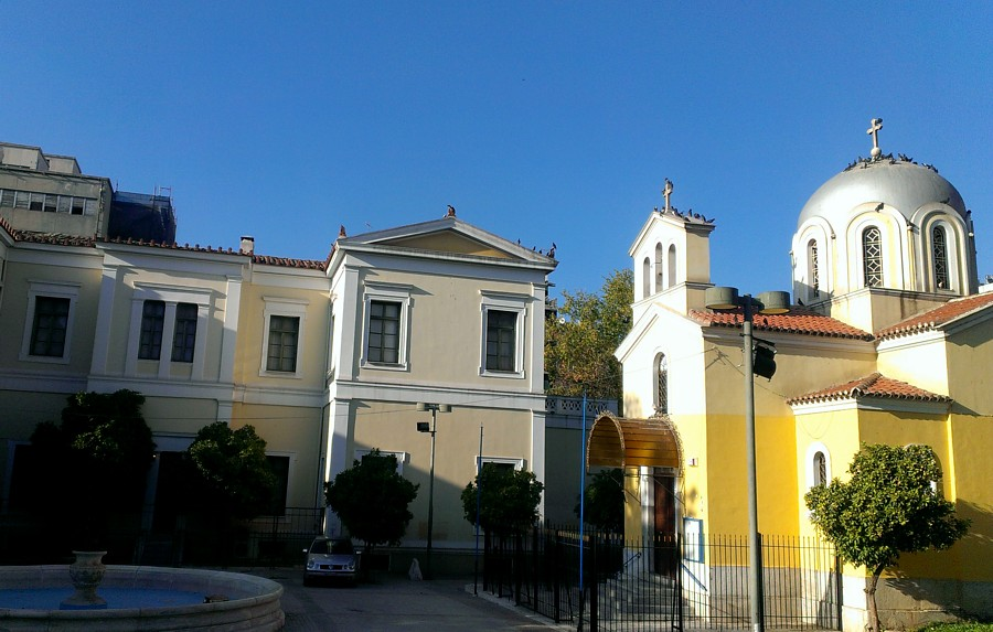 pinakothiki